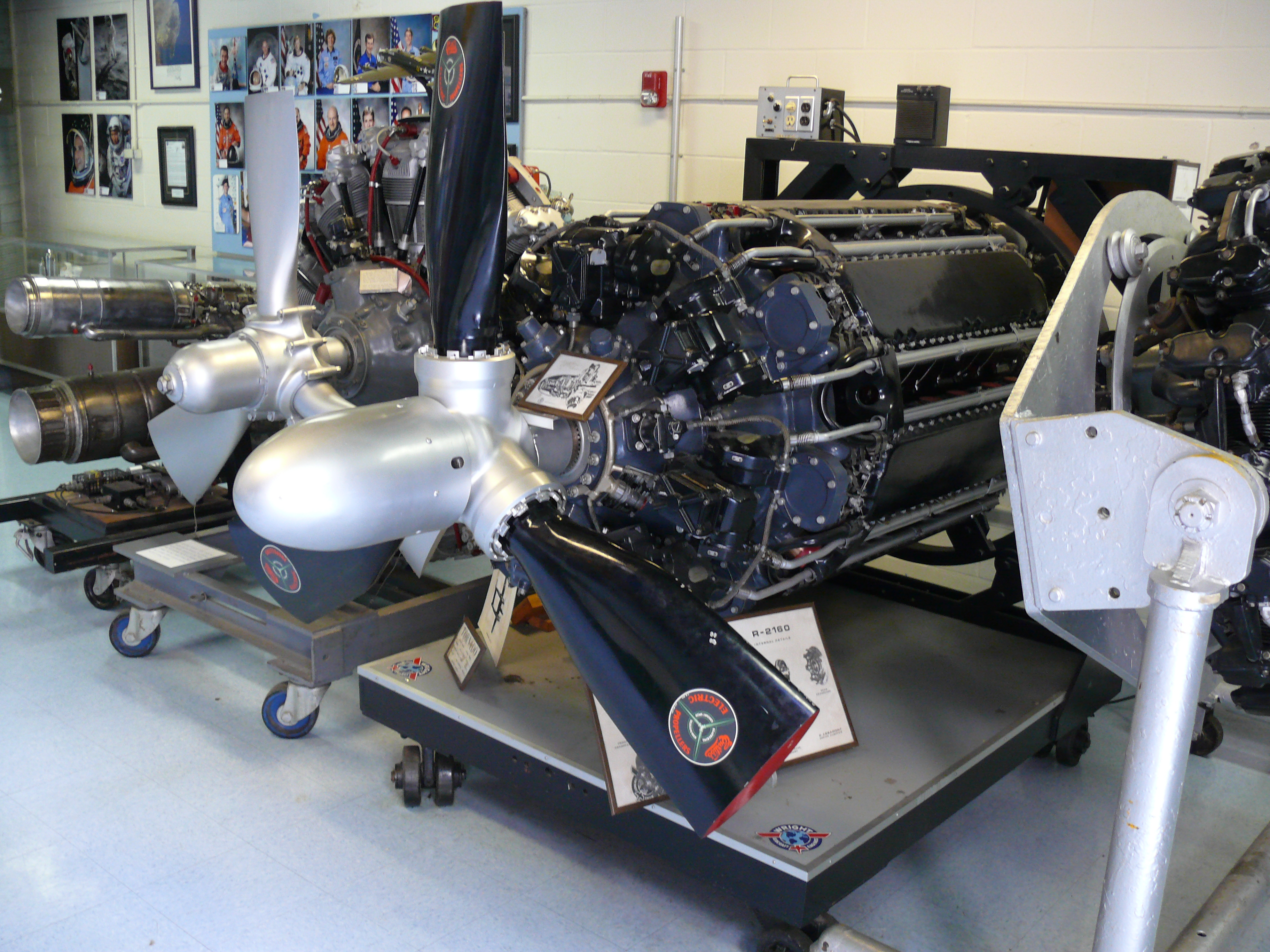 Wright R-2160 Tornado in the Aviation Hall of Fame and Museum of New Jersey. The Wright R-2160 Tornado was an experimental 2,350 hp (1,752 kW), 42-cylinder, 6-row liquid-cooled aircraft engine.